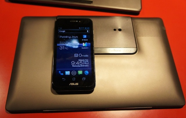 ASUS PadFone 2